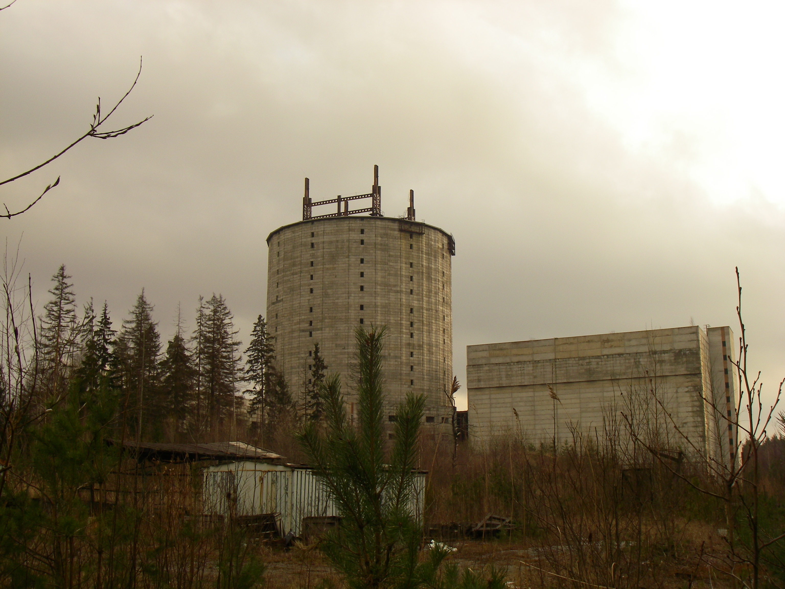 Testing complex "Vertical'" in NIIKI OEP